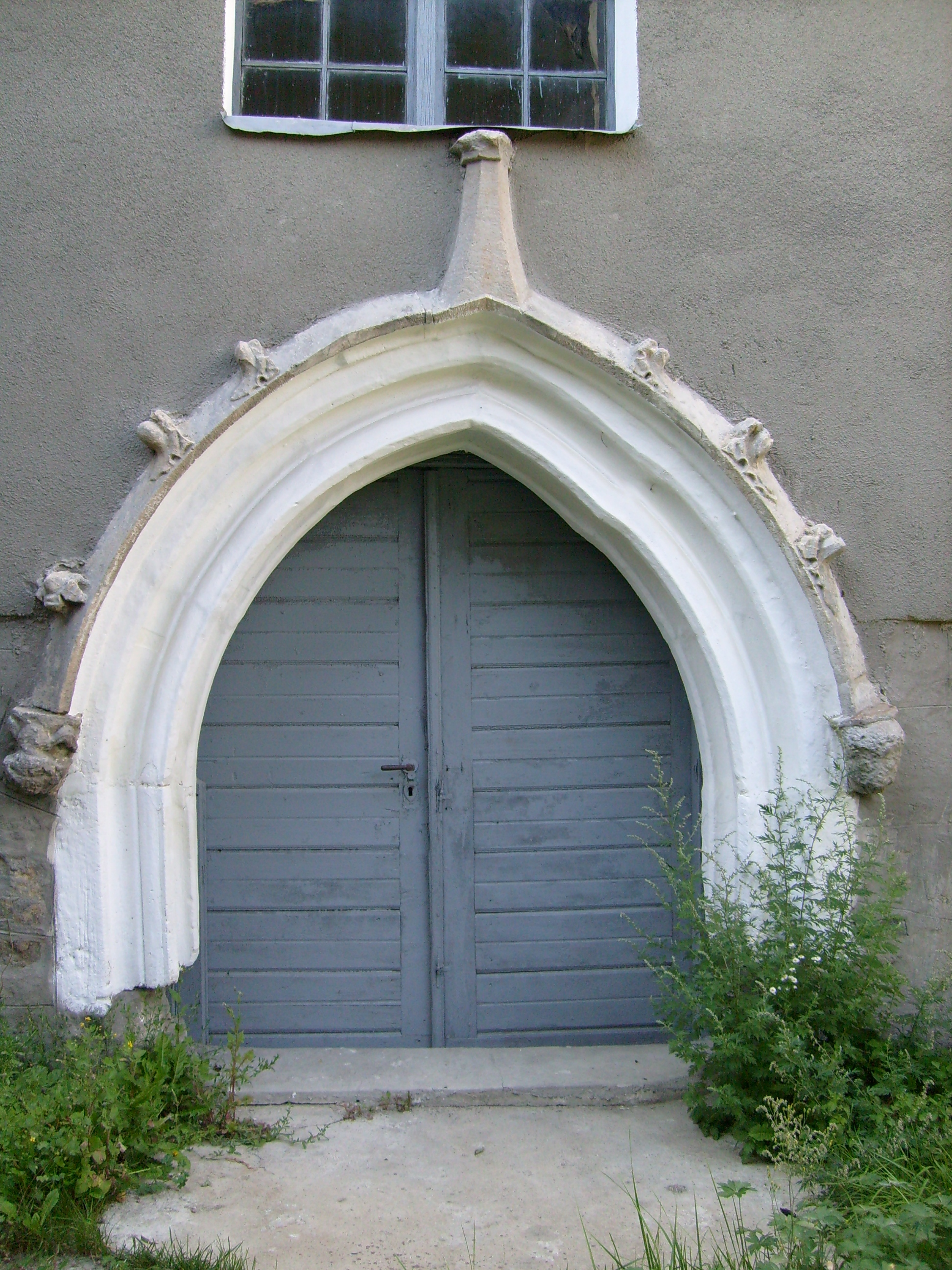 South Portal of St.-Nicholas Church in Abrud (13th century).